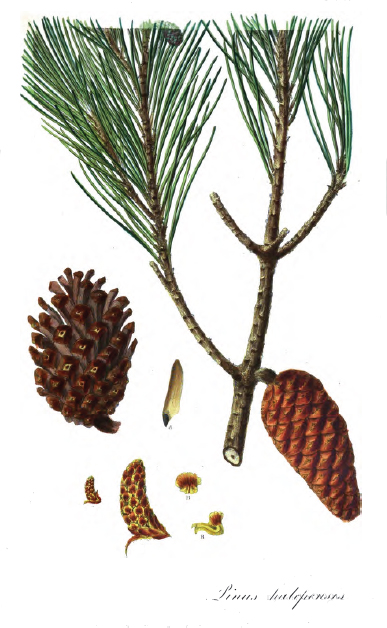 Pinus halepensis. Botanical illustration from: Description of the Genus Pinus, with directions relative to the cultivation, remarks on the uses of the several species and descriptions of many other new species of the Family of Coniferae illustrated with figures by Aylmer Bourke Lambert, Esq. London: Messrs. Weddell, MDCCCXXXII